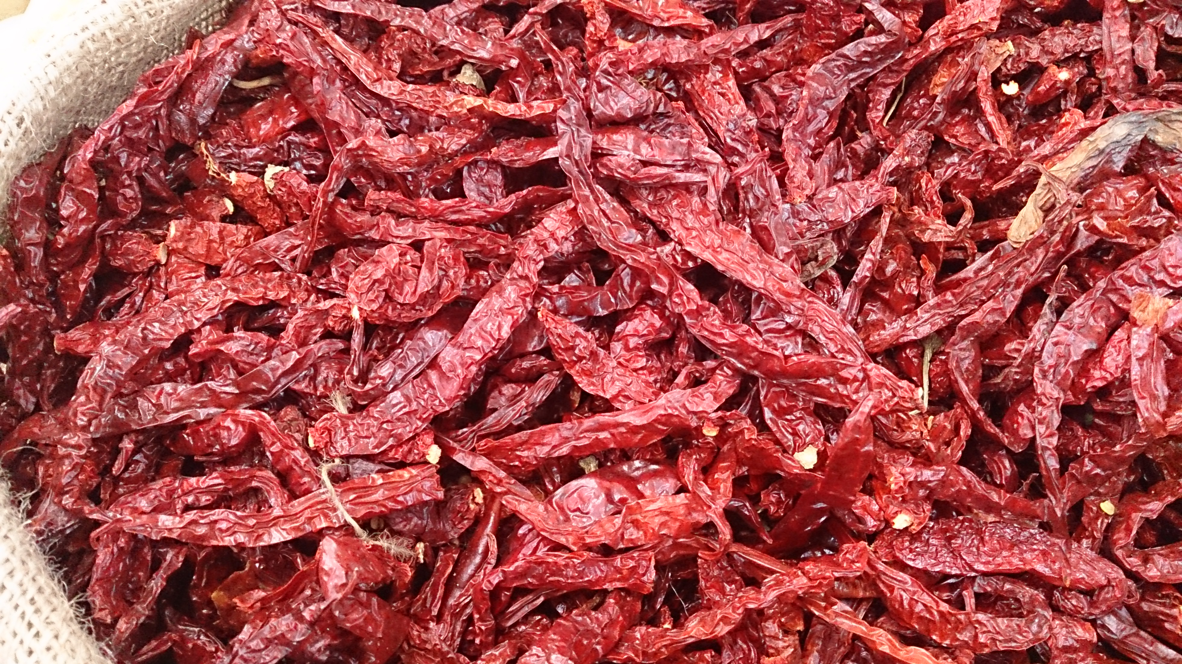 Dried chilli for sale at a wet market in Singapore.